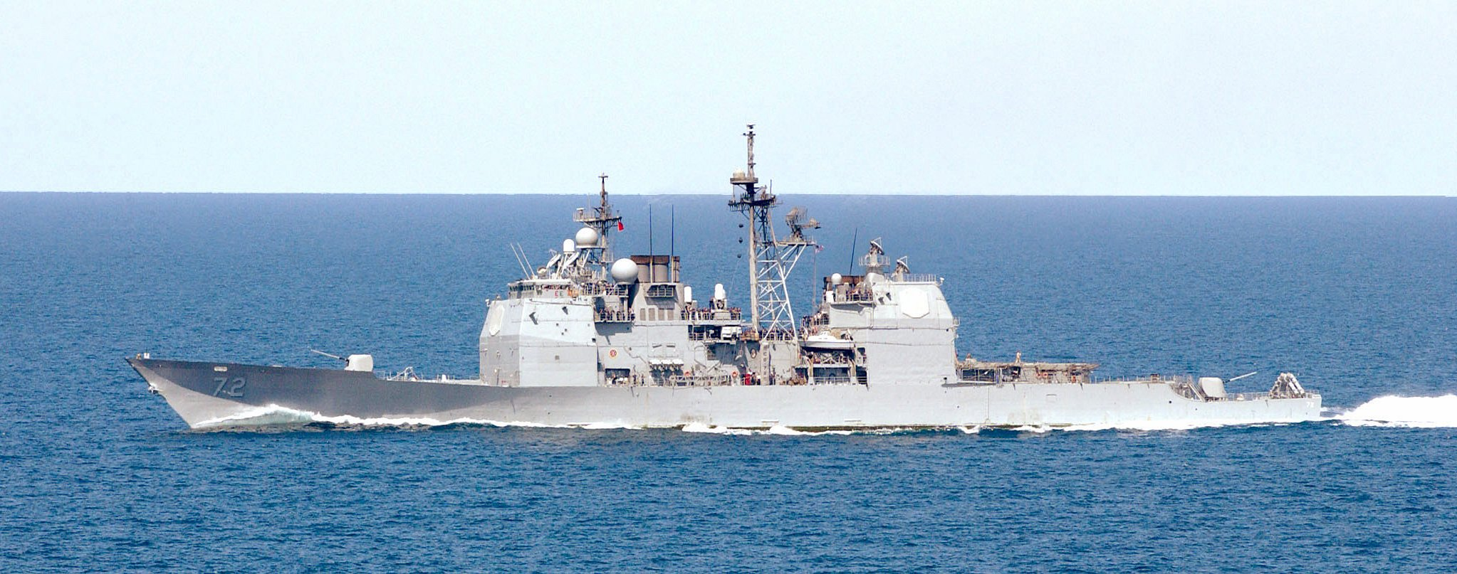 ID: DNSD0317009 Port side view of the US Navy (USN) Ticonderoga class guided missile cruiser (AEGIS) USS Vella Gulf (CG-72) underway in the Arabian Sea, in support of Operation Enduring Freedom. Defense Visual Information Center photo ID DN-SD-03-17009